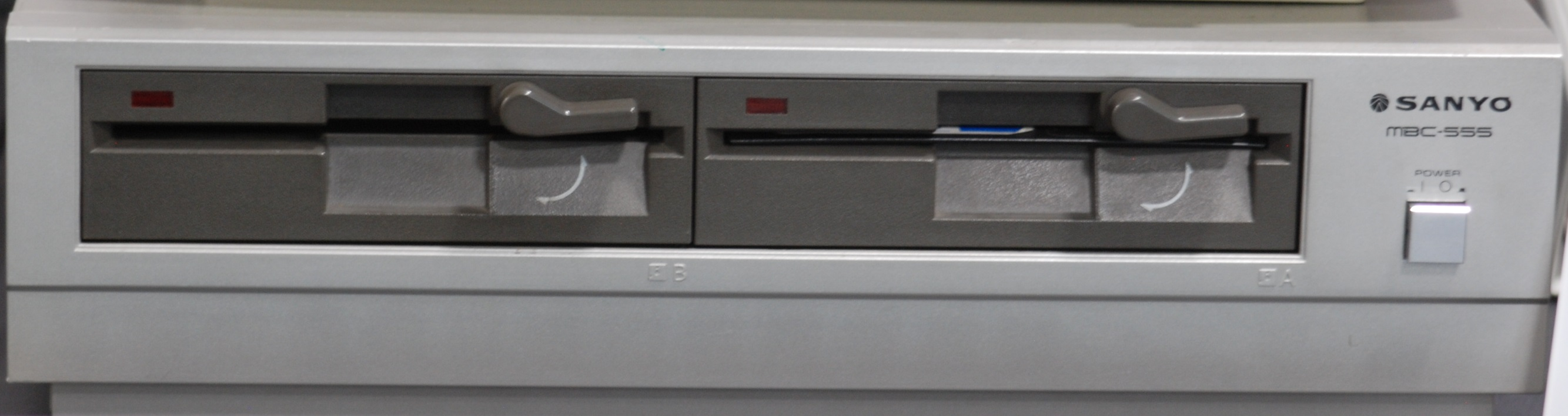 Sayno MBC 555 Computer. Currently on display at the Living Computer Museum in Seattle, Washington.